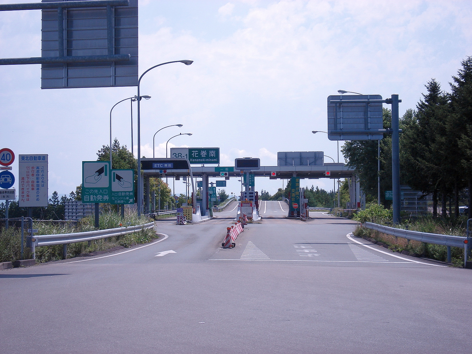 This Interchange, Hanamaki-Minami Interchange, is on Tohoku Expressway, in Hanamaki city, Iwate Prefecture, Japan.